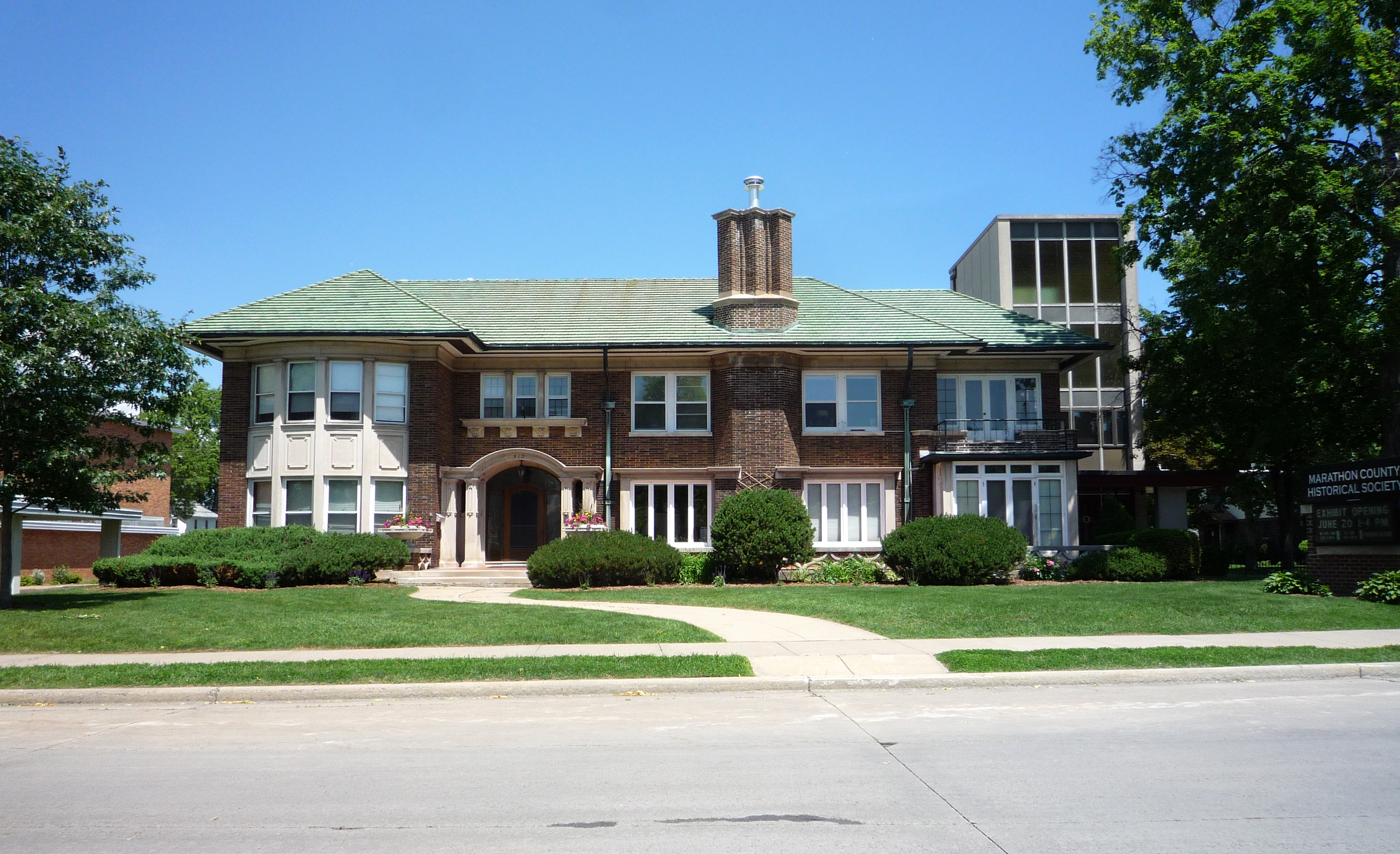 The Category:Marathon County Historical Society }, library building — in Category:Wausau, Wisconsin . The brick house is across the street form the society's Historic house museum.